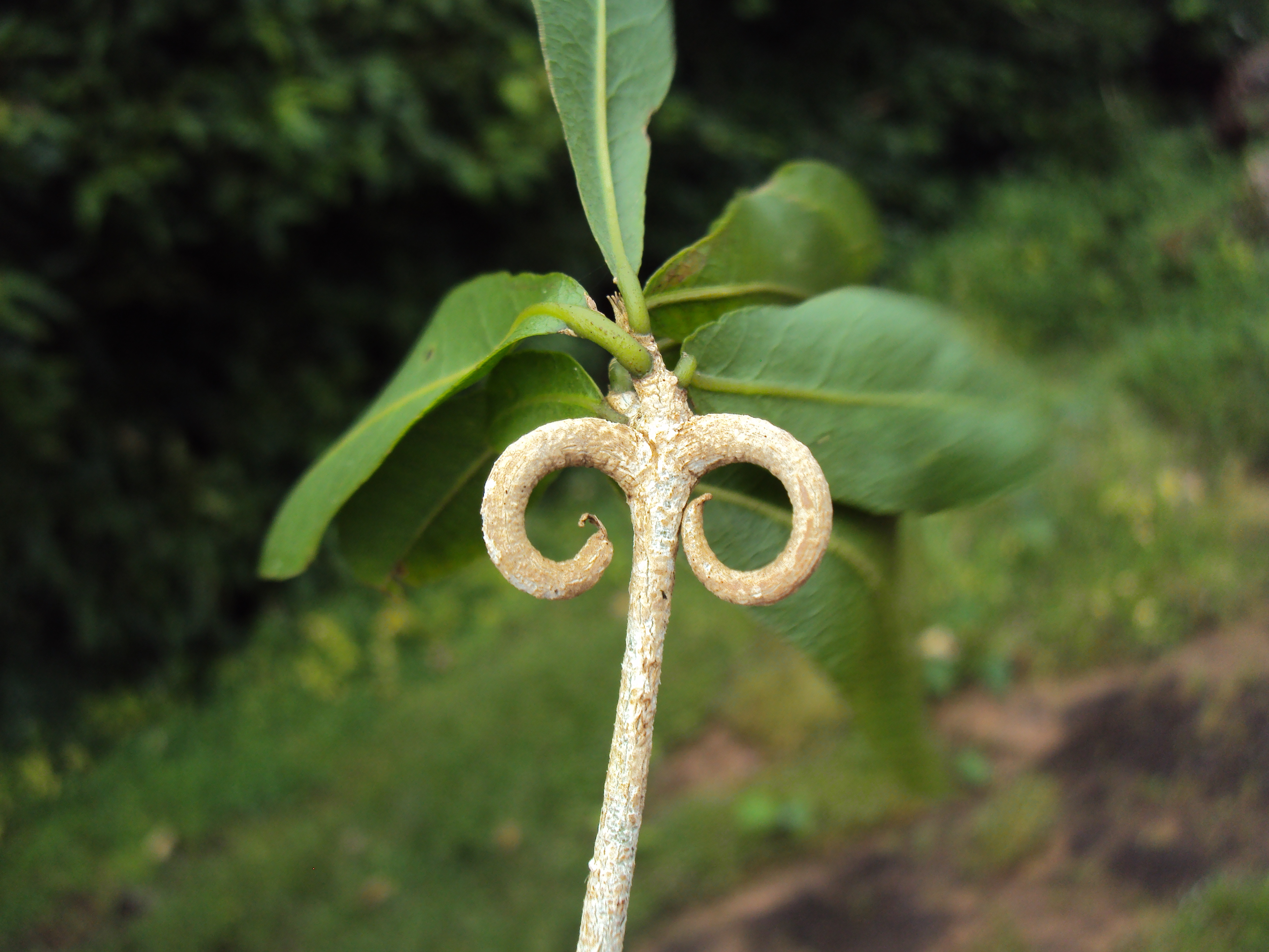 Hugonia mystax